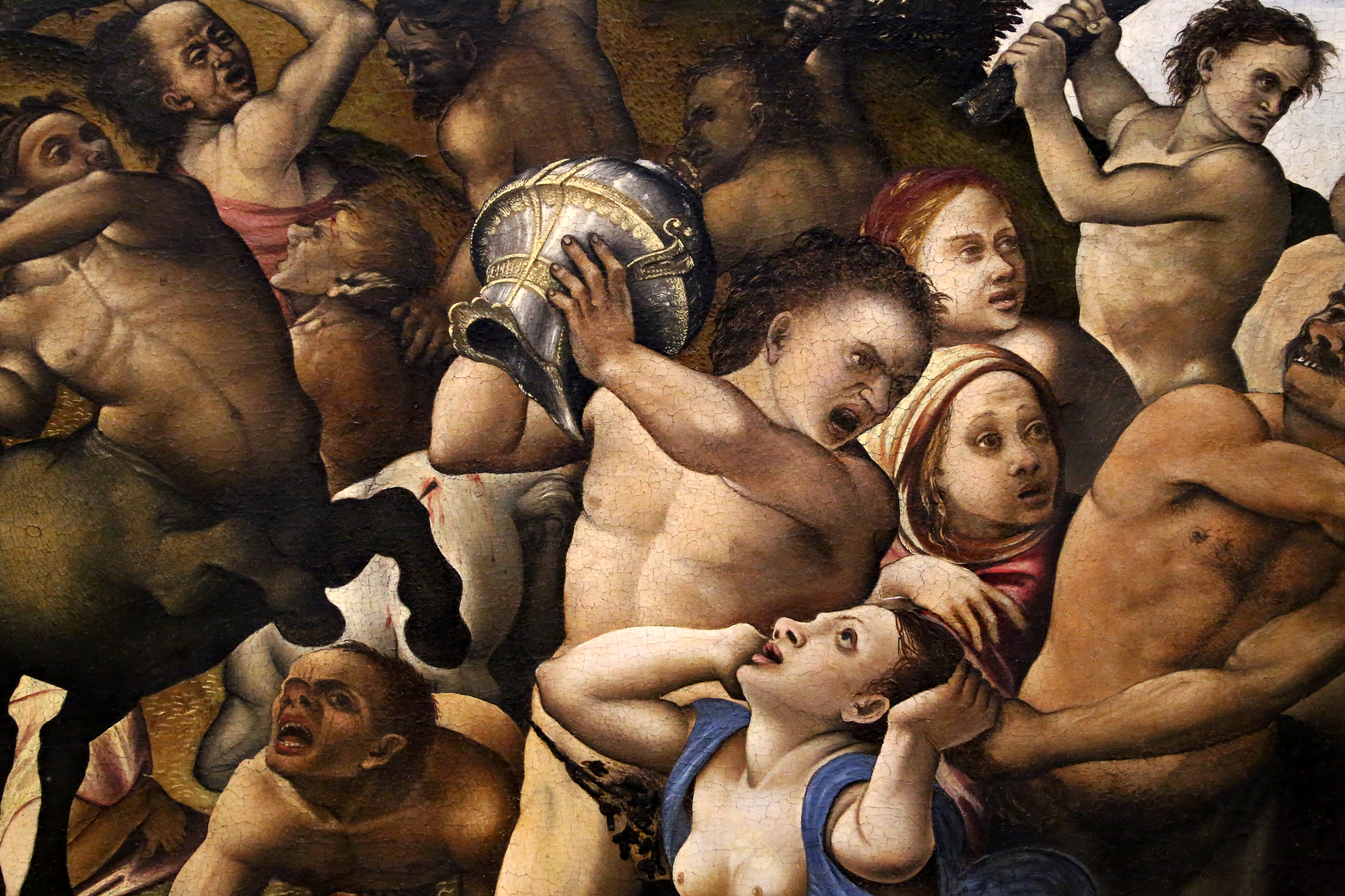 Battle of Lapiths and Centaurs by Piero di Cosimo